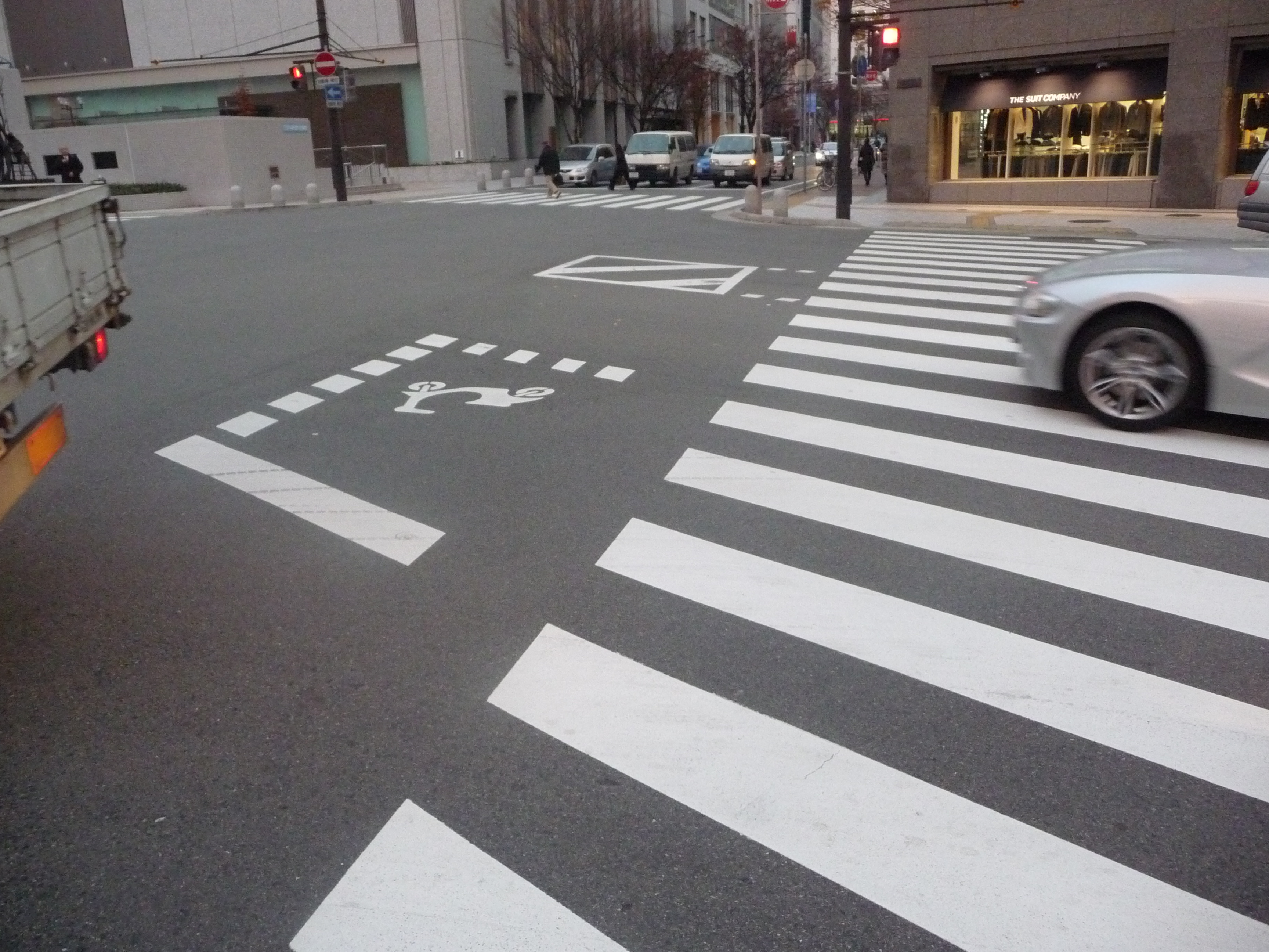 I don't really get why bikes need a place out in the middle of the crossing to wait for the green light...